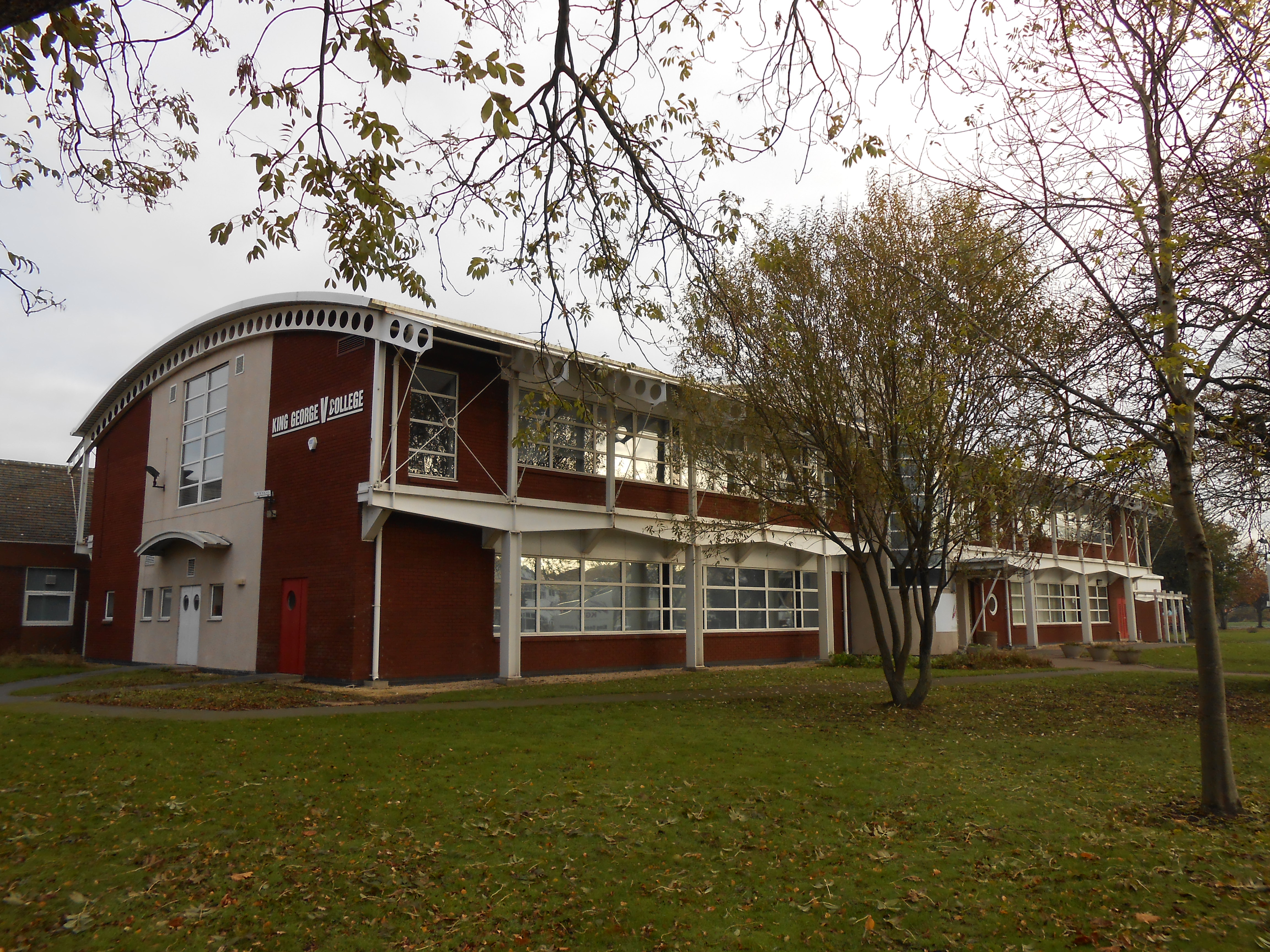 King George V College, Scarisbrick New Road, Southport, Merseyside, England.